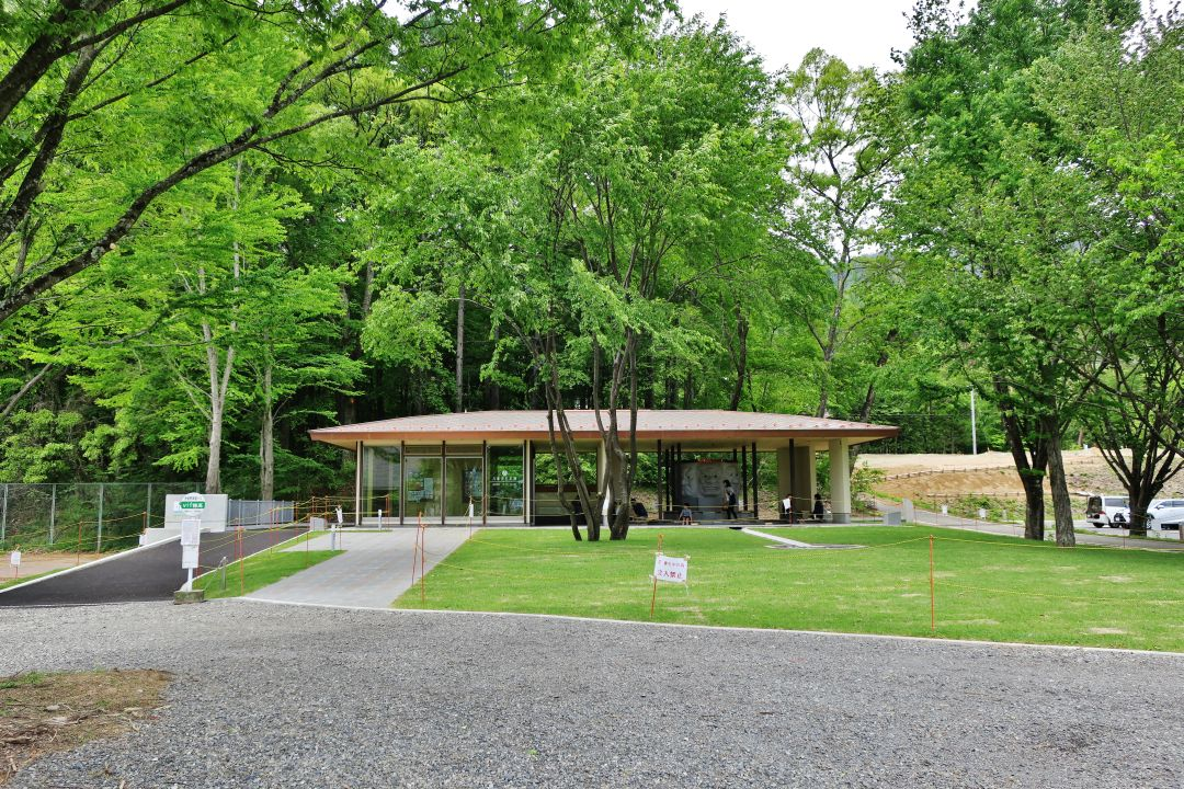 Vif Hotaka bus stop.